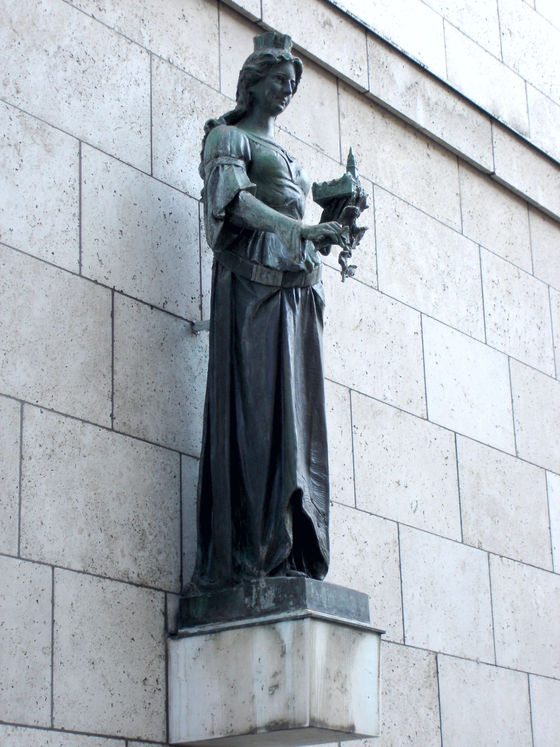 Statue of Stuttgardia - Symbol of the city of Stuttgart, Germany. Sculpted in 1905 by Heinz Fritz (1873-1927). Model: Else Weil (1888-1955)